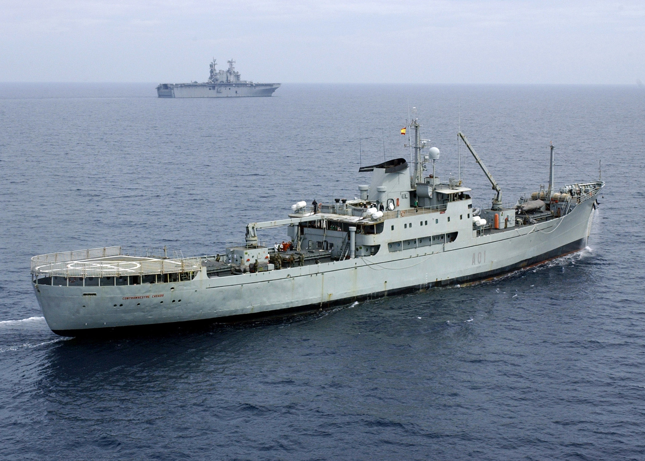 070418-N-8493H-017 ATLANTIC OCEAN (April 18, 2007) - Spanish ship Contramaestre Casado (SPS-A01) and USS Nassau (LHA 4) conduct operations together in the Atlantic Ocean in support of exercise Phoenix Express. The two-week long exercise is designed to strengthen regional maritime partnerships, focused on developing increased maritime domain awareness, better information sharing practices and the ability to operate jointly. The exercise includes participants from Algeria, France, Greece, Italy, Malta, Morocco, Portugal, Spain, Tunisia, Turkey and the United States. U.S. Navy photo by Mass Communication Specialist 1st Class Steven Harbour (RELEASED)